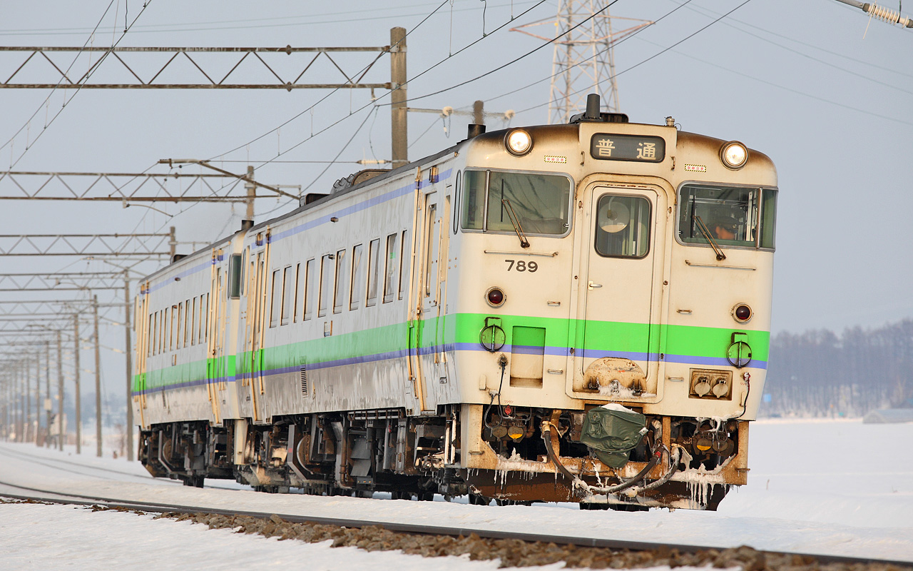 JR Hokkaido KiHa 40 DMU cars KiHa 40-789 + KiHa 40-1704 on the Hakodate Main Line between Minenobu and Iwamizawa (train service 930D)